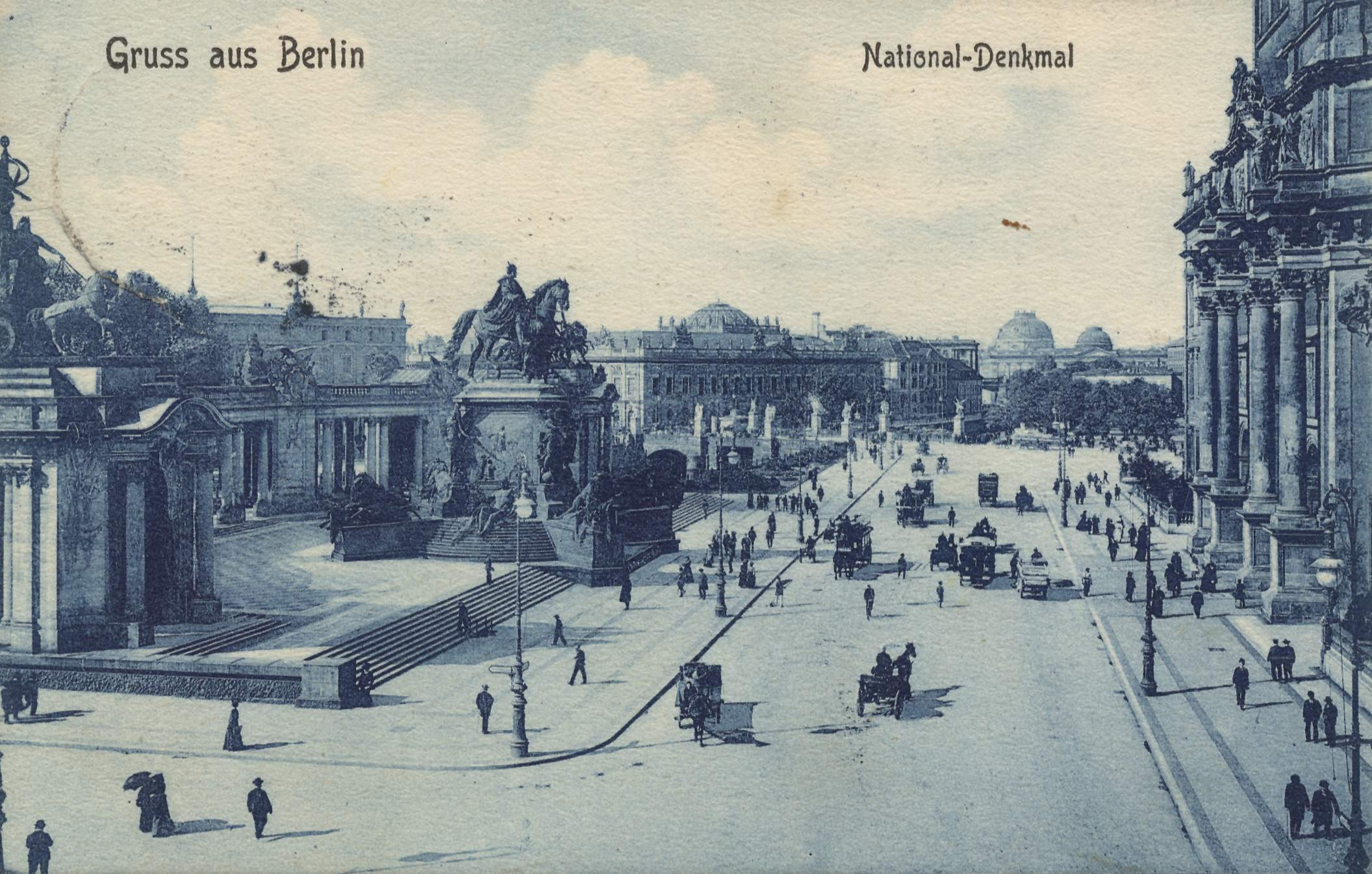 Berlin - an old postcard with Kaiser Wilhelm memorial